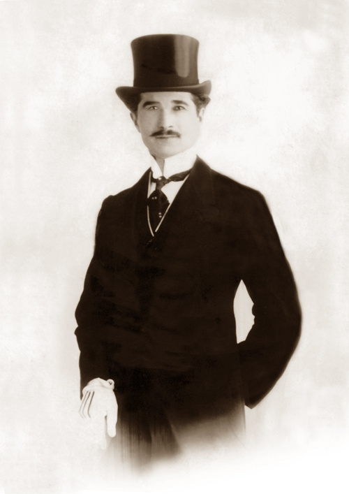 Akaki Chanturia, thee founder of Zugdidi Palaces Museum